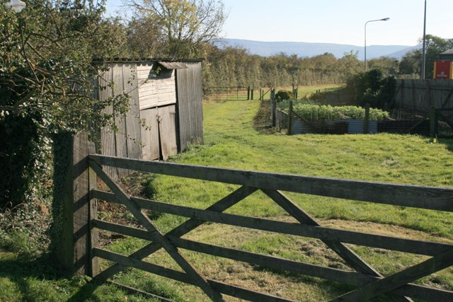 Course of Former Railway The railway operated from 1857 to 1885 and serviced the Ailesbury mines in Scugdale supplying ore to Stockton ironworks. It joined the Picton to Stokesley branch of the Cleveland and North Yorkshire Railway just behind where the photographer is standing.